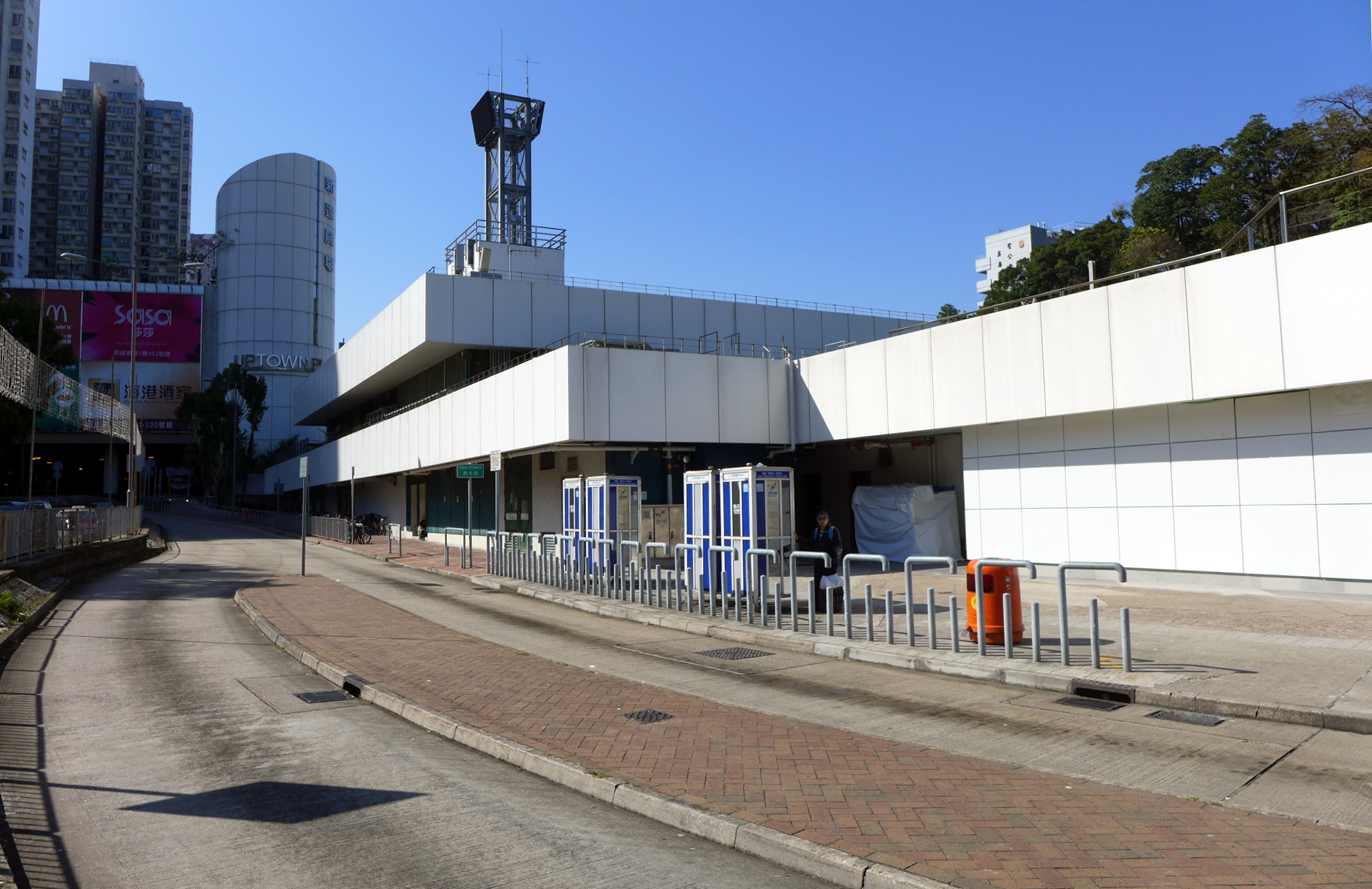 MTR Tai Po Market station exterior